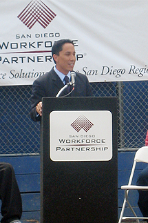 Photo of Todd Gloria. Image is in the public domain, as indicated by the disclaimer of the website of the City of San Diego, found here: An excerpt: Unless a copyright is indicated, information on the City of San Diego Web site is in the public domain and may be reproduced, published or otherwise used with the City of San Diego's permission. We request only that the City of San Diego be cited as the source of the information and that any photo credits, graphics or byline be similarly credited to the photographer, author or City of San Diego, as appropriate